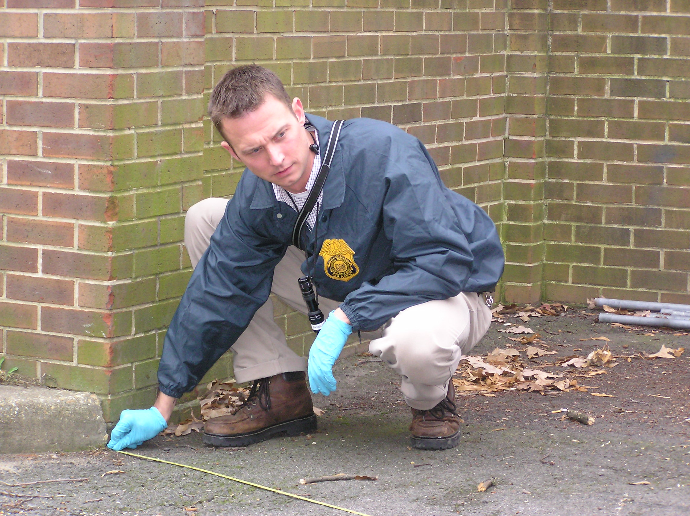 A U.S. Army Criminal Investigation Command special agent processes a crime scene on an Army installation. Thirty new sexual-assault investigators will be assigned to various major Army installations worldwide to assume the lead in forming special victim investigative units in support of the Army's Sexual Harassment/Assault Prevention and Response Program known as SHARP.